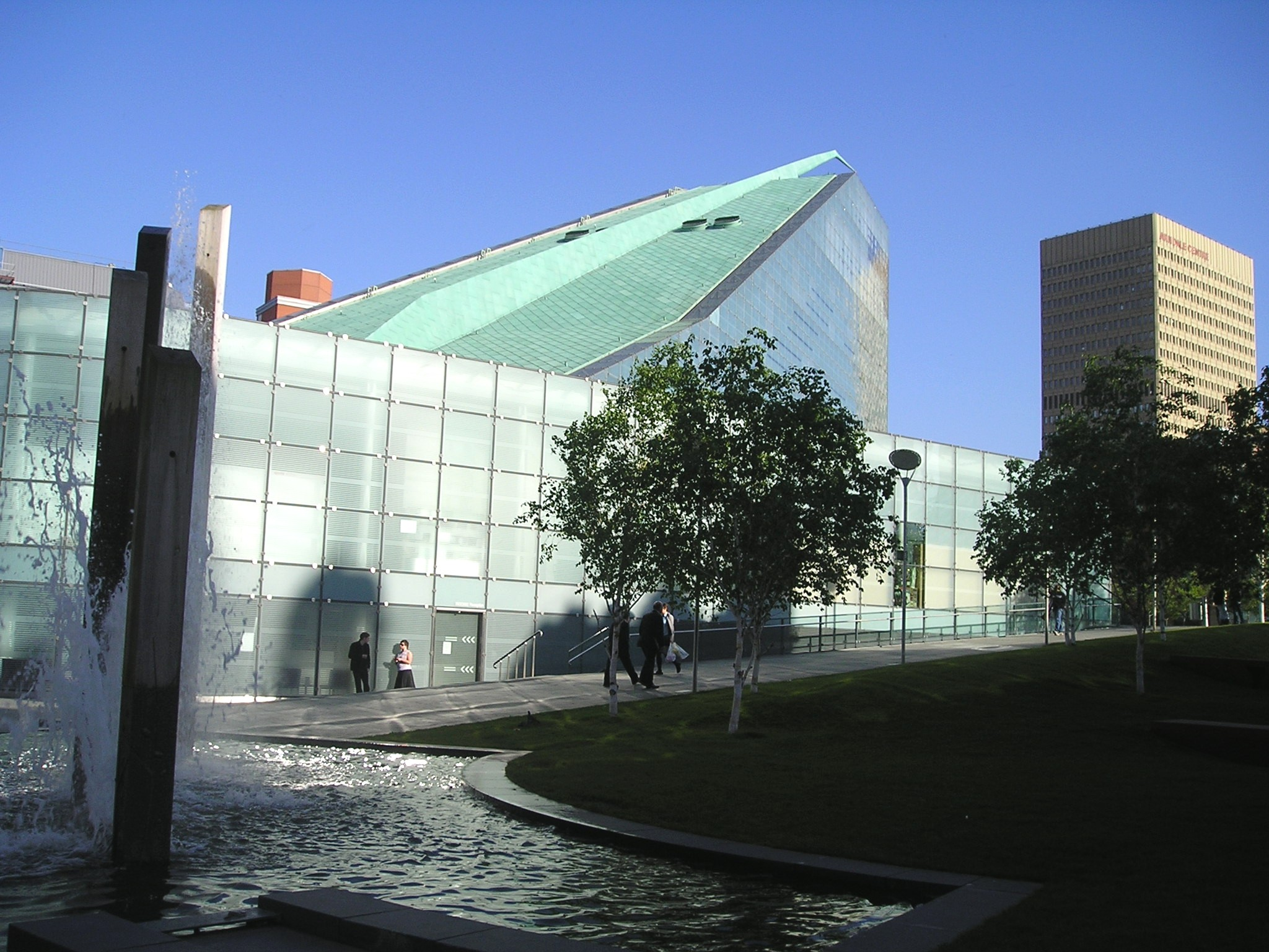 Taken by myself in the Summer at about 16.00. Was either 2003 or 2004 Urbis was designed by Ian Simpson Architects Category:Images of Manchester